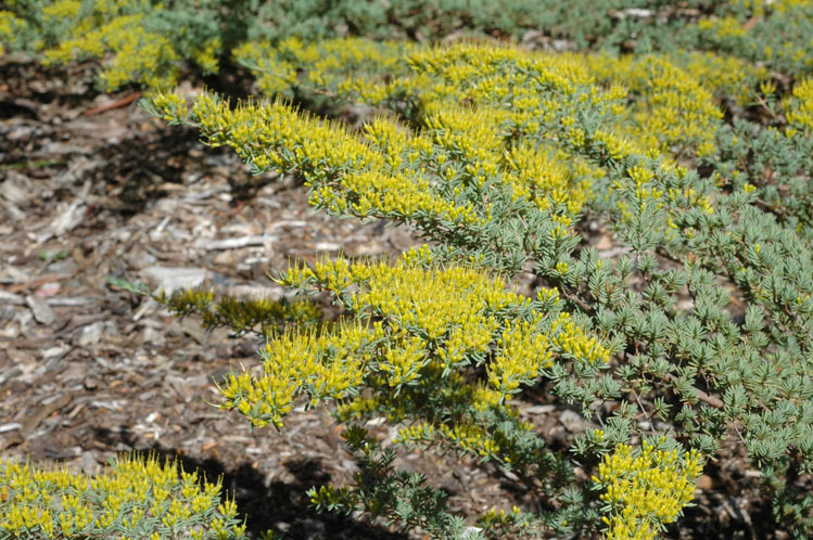 Habit of Homoranthus prolixus in the Australian National Botanic Garden